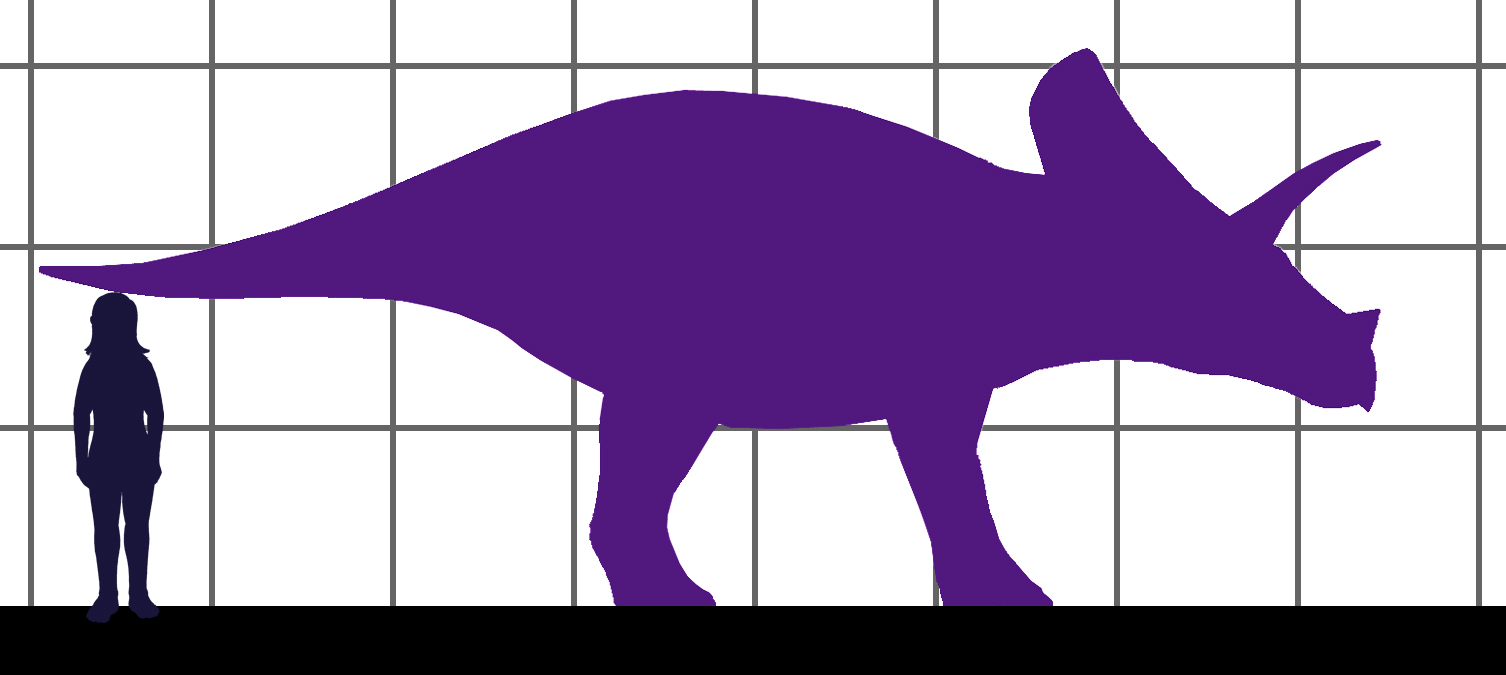 Size comparison between the horned dinosaur Torosaurus and a human.